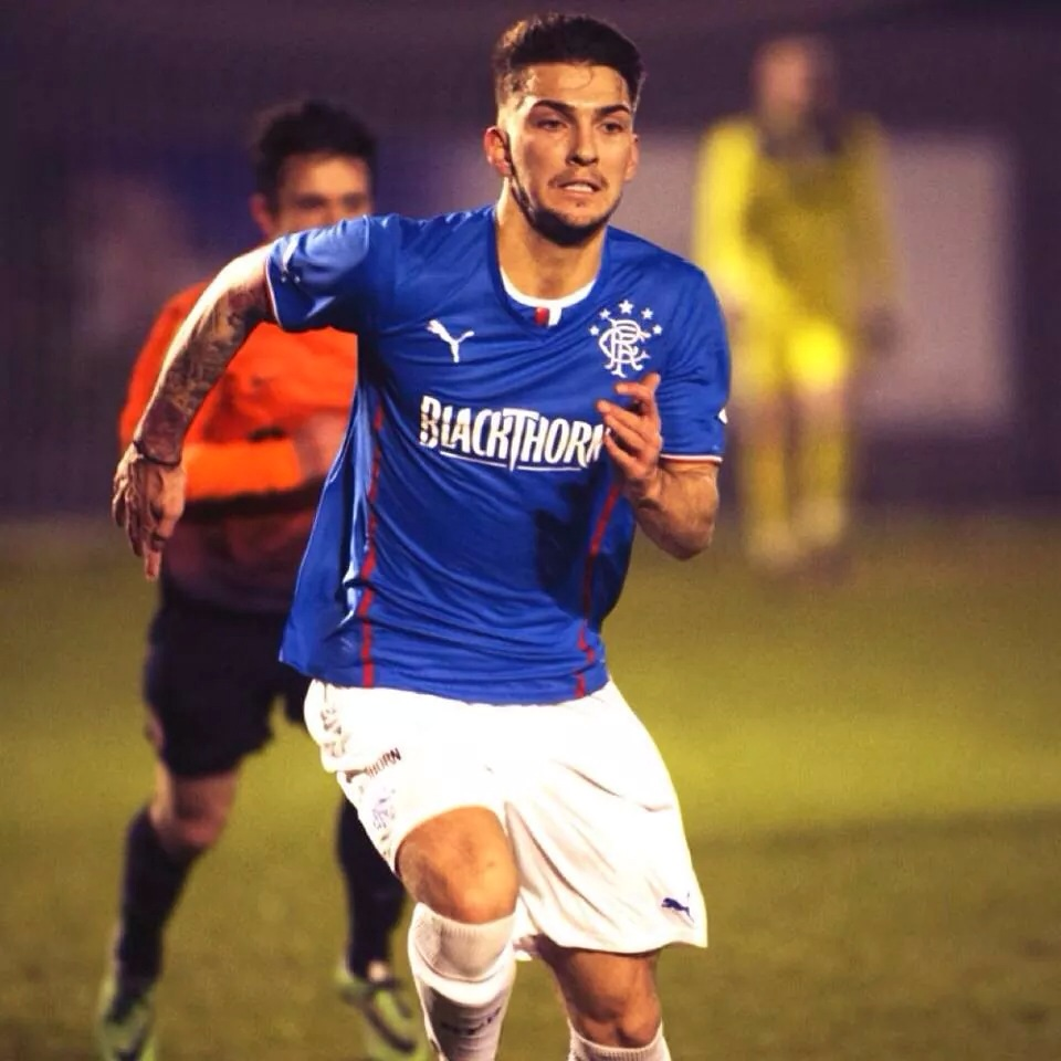 Ryan Finnie playing on 26 March for Rangers FC